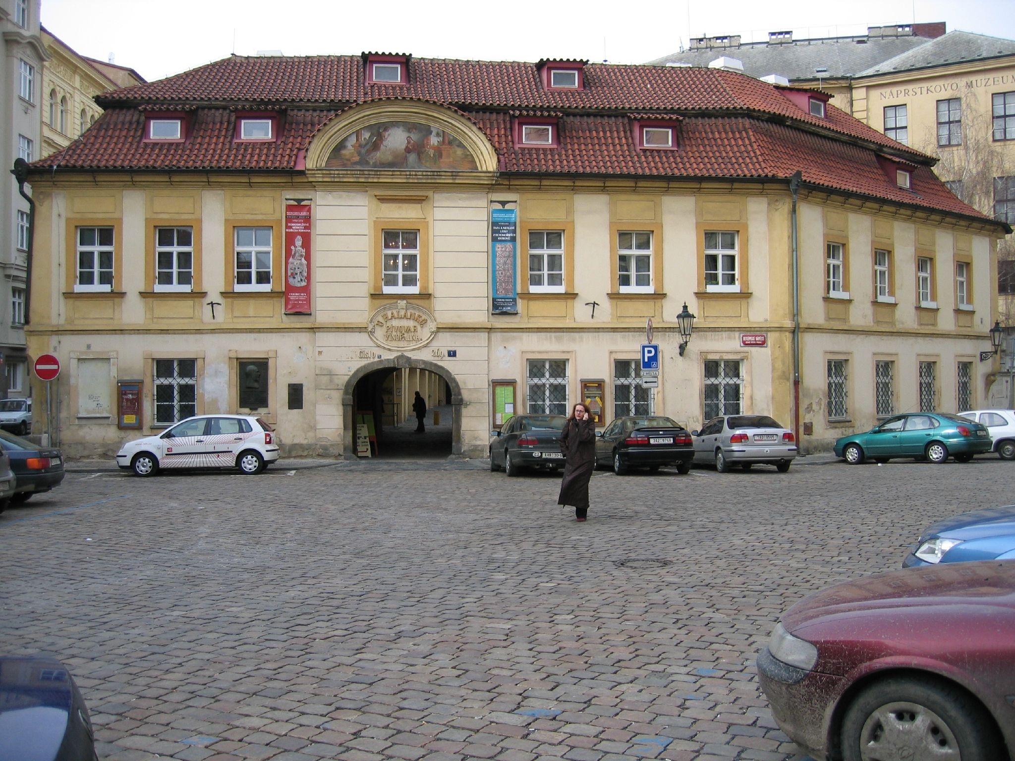 U Halánků House in Bethlehem Square, Old Town of Prague, Czech Republic.